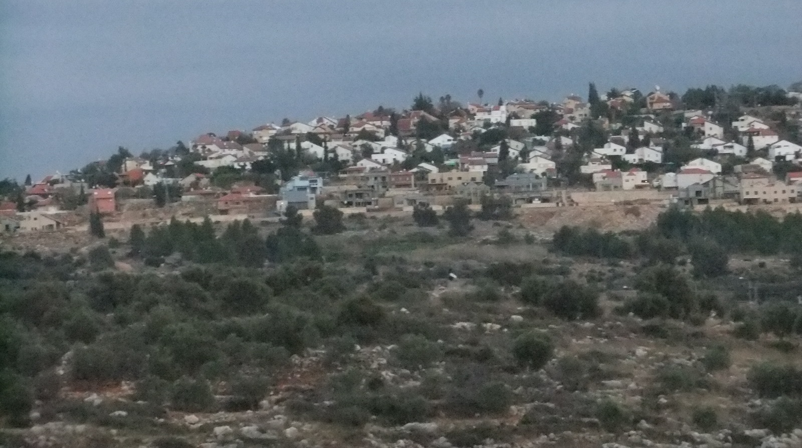 Beit Aryeh from the west